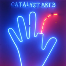 Catalyst Arts logo